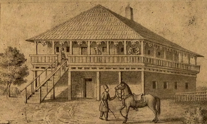 Palace of Eristavi